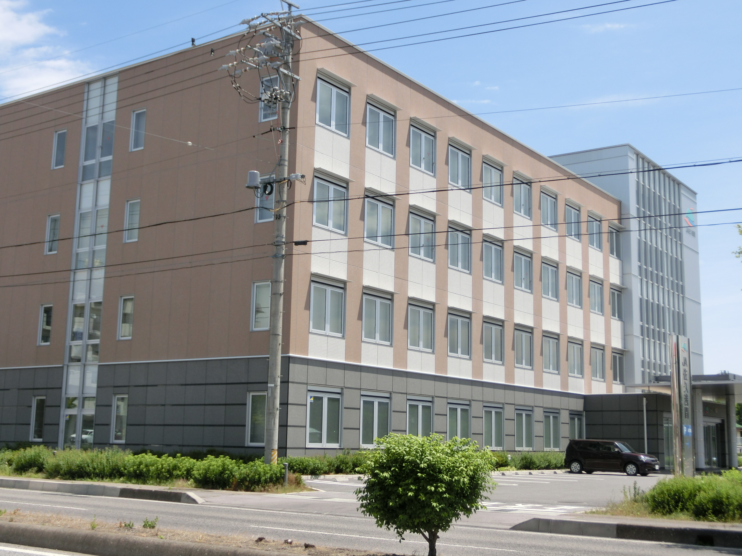 JA Saku-Asama Headquarters